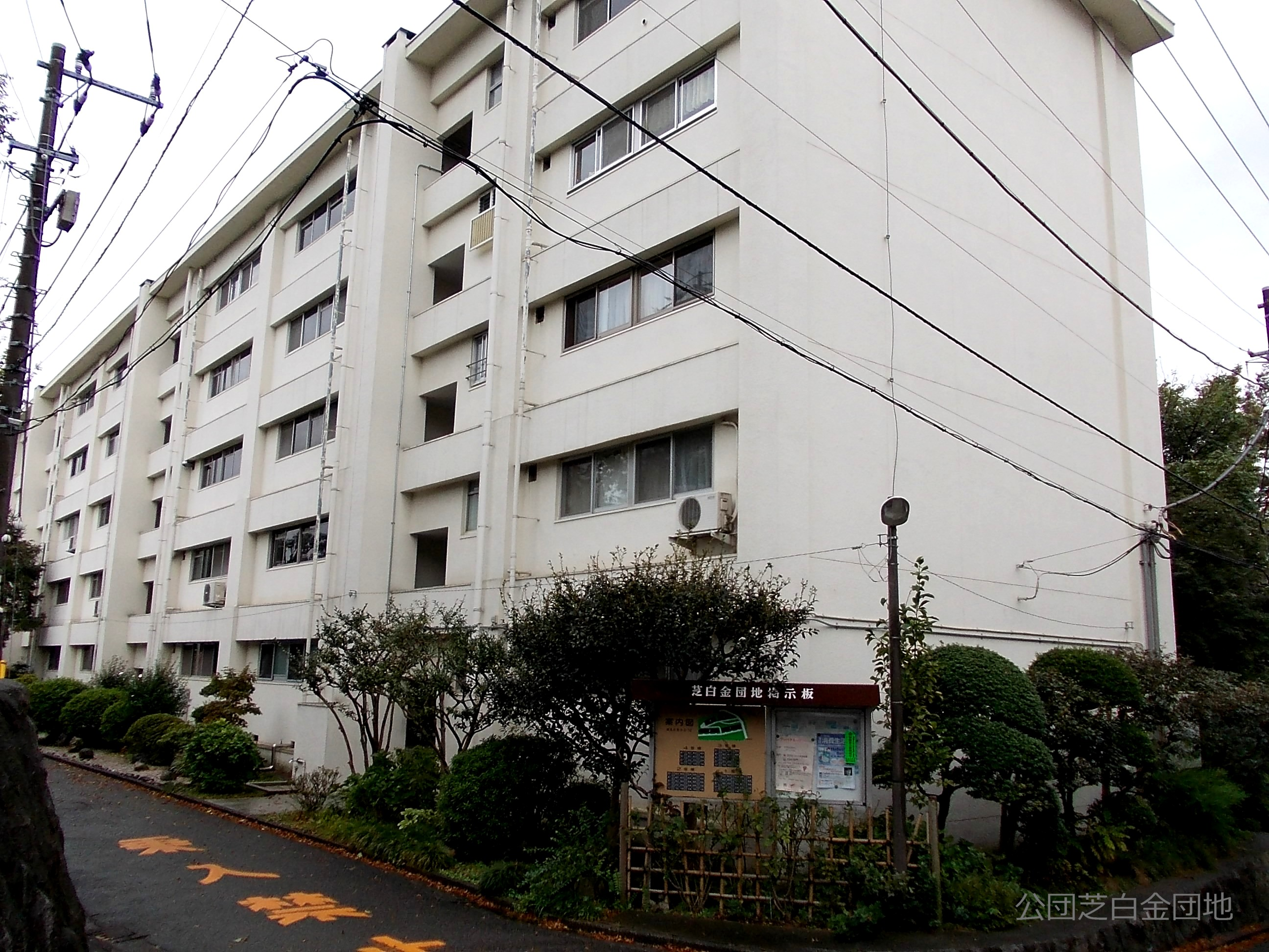 Kodan Shiba Shirokane Danchi in Tokyo